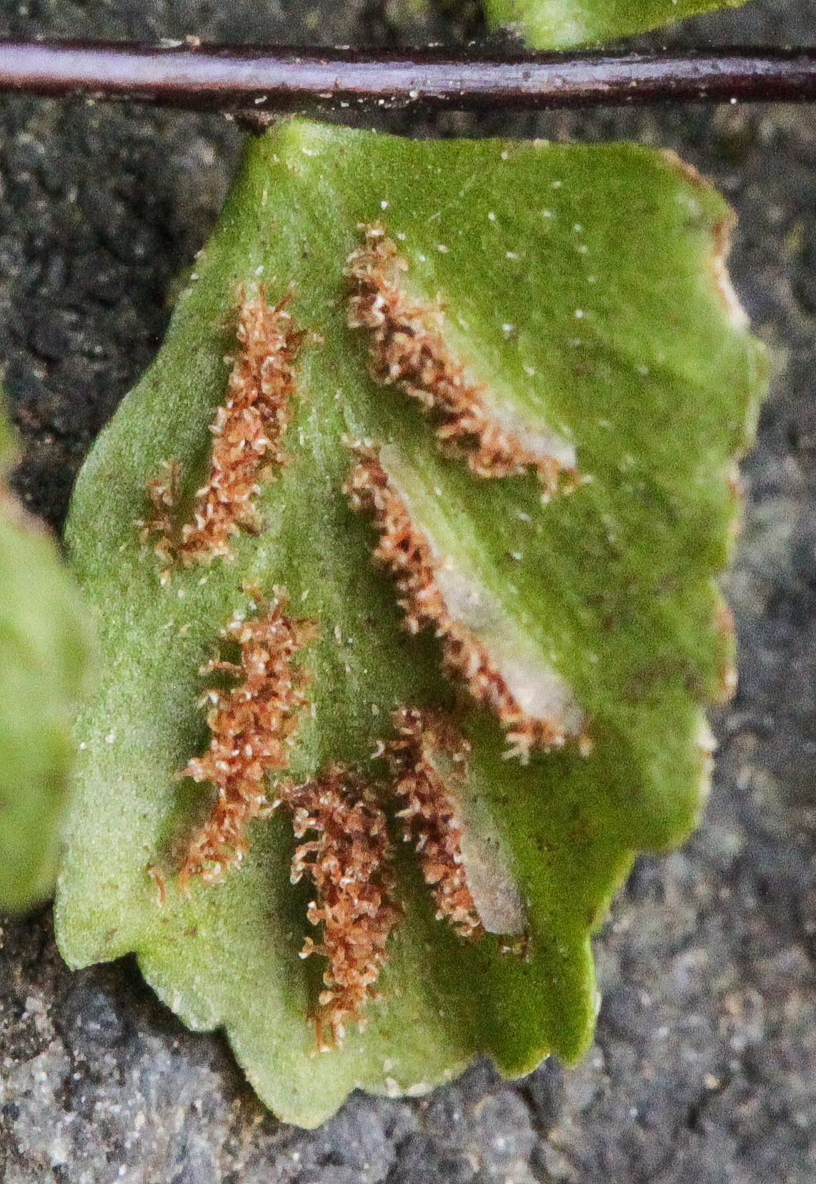 Single leaflet of Asplenium trichomanes, showing linear sori and membranous lateral indusium